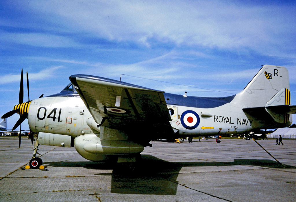 Fairey Gannet AEW.3 XL503 'R041' of 849 Squadron's B Flight based on HMS Ark Royal at Greenham Common in 1973